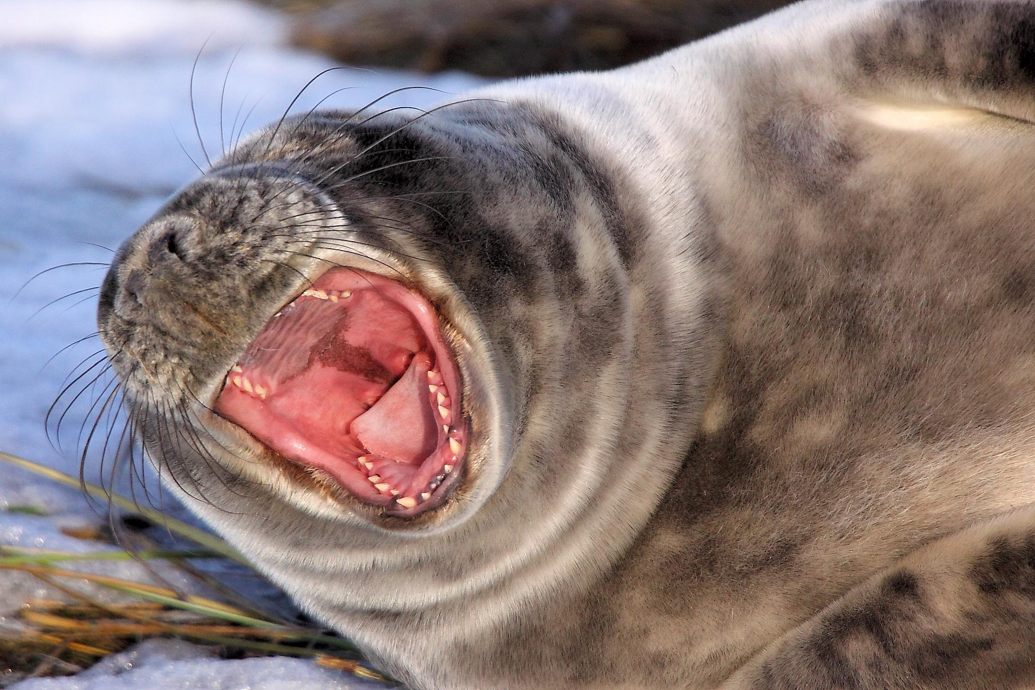 Seal - Donna Nook December 2010